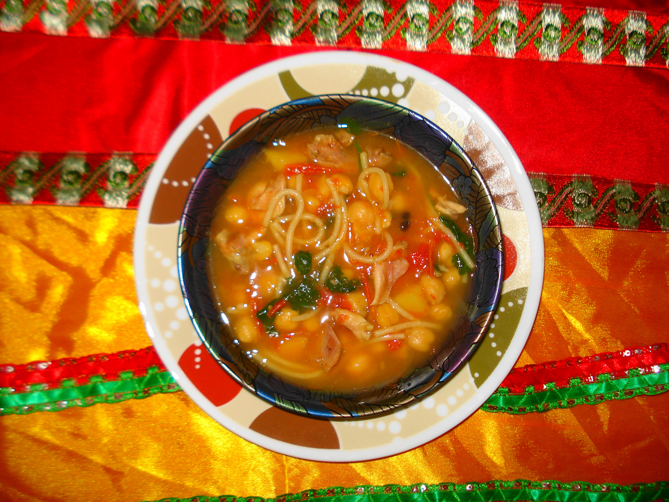 Soupe marocaine traditionnelle